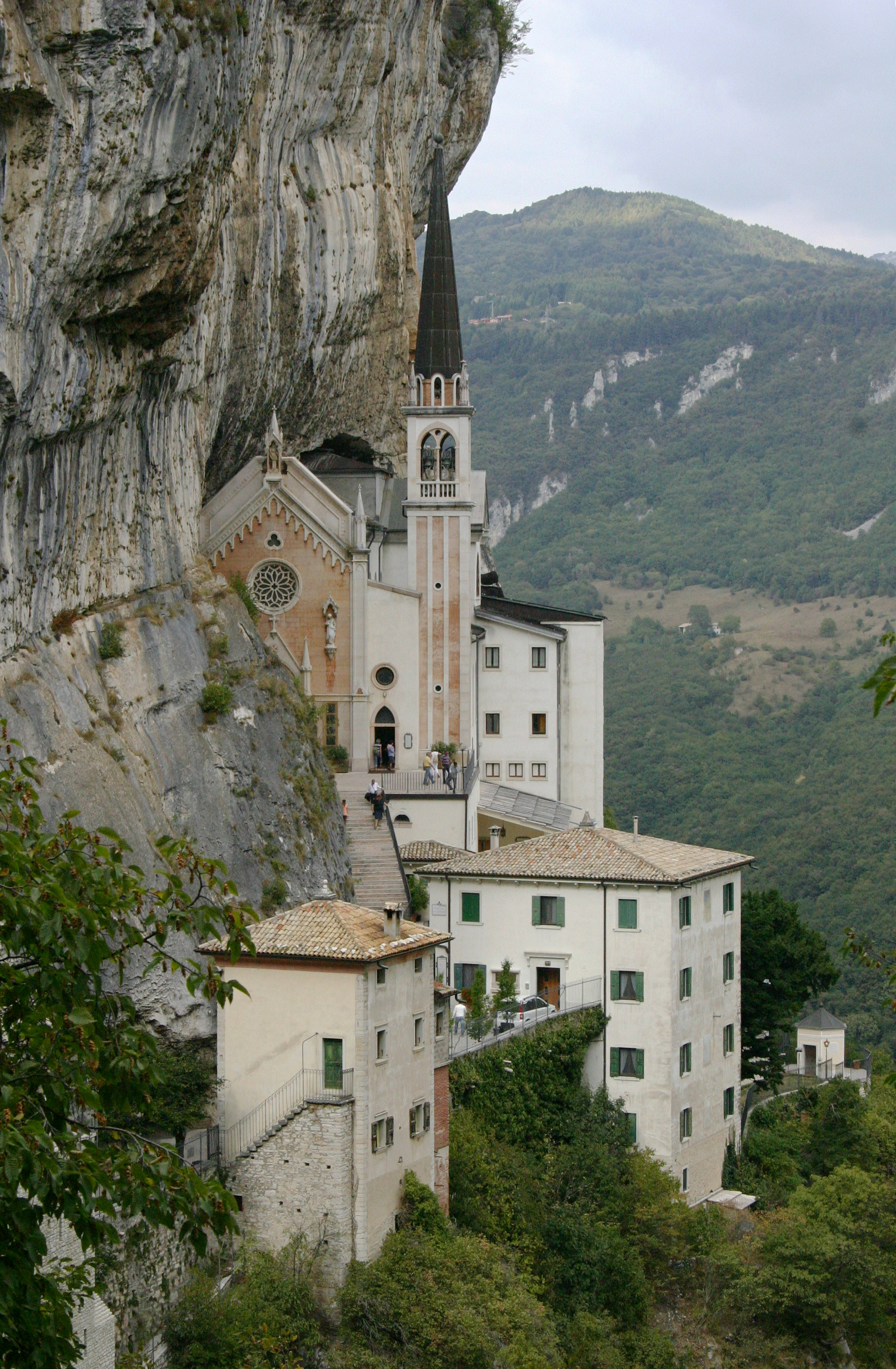 Sanctuary Madonna della Corona near Spiazzi, Trentino, Italy